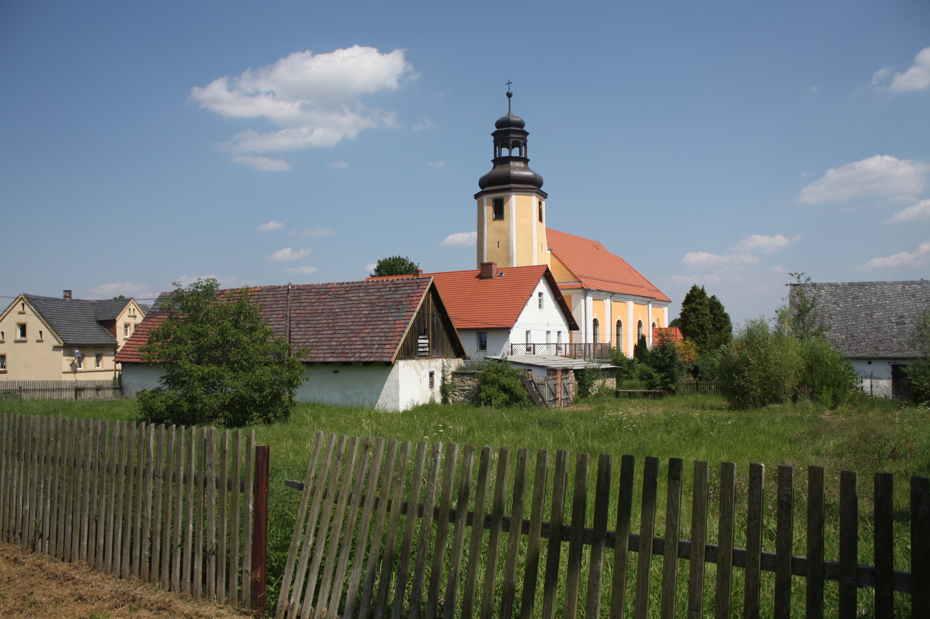 This photo of Lower Silesian Voivodeship was taken during Wikiexpedition 2013 set up by Wikimedia Polska Association. You can see all photographs in category Wikiekspedycja 2013. English | Polski | +/−